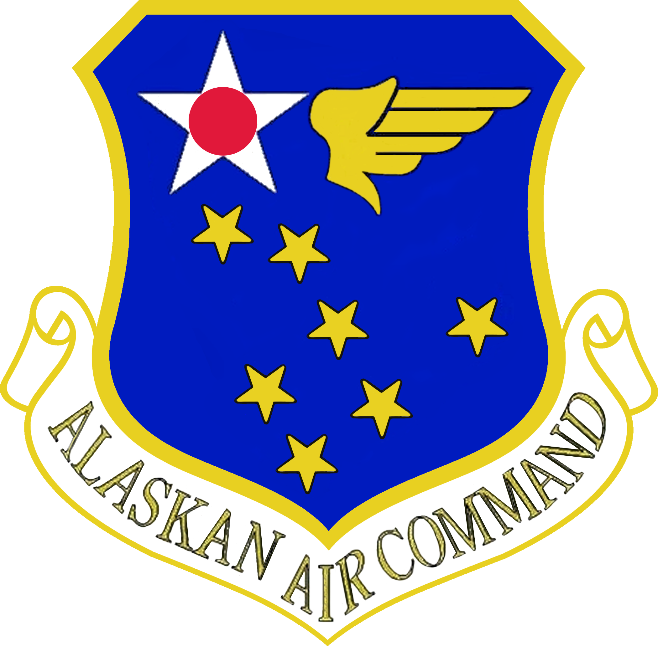 AAC Logo - I was the author of the page, so I am reusing the image. It was created by the United States government, and is public domain